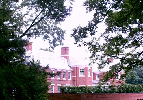 Photo shot from approach of the house.